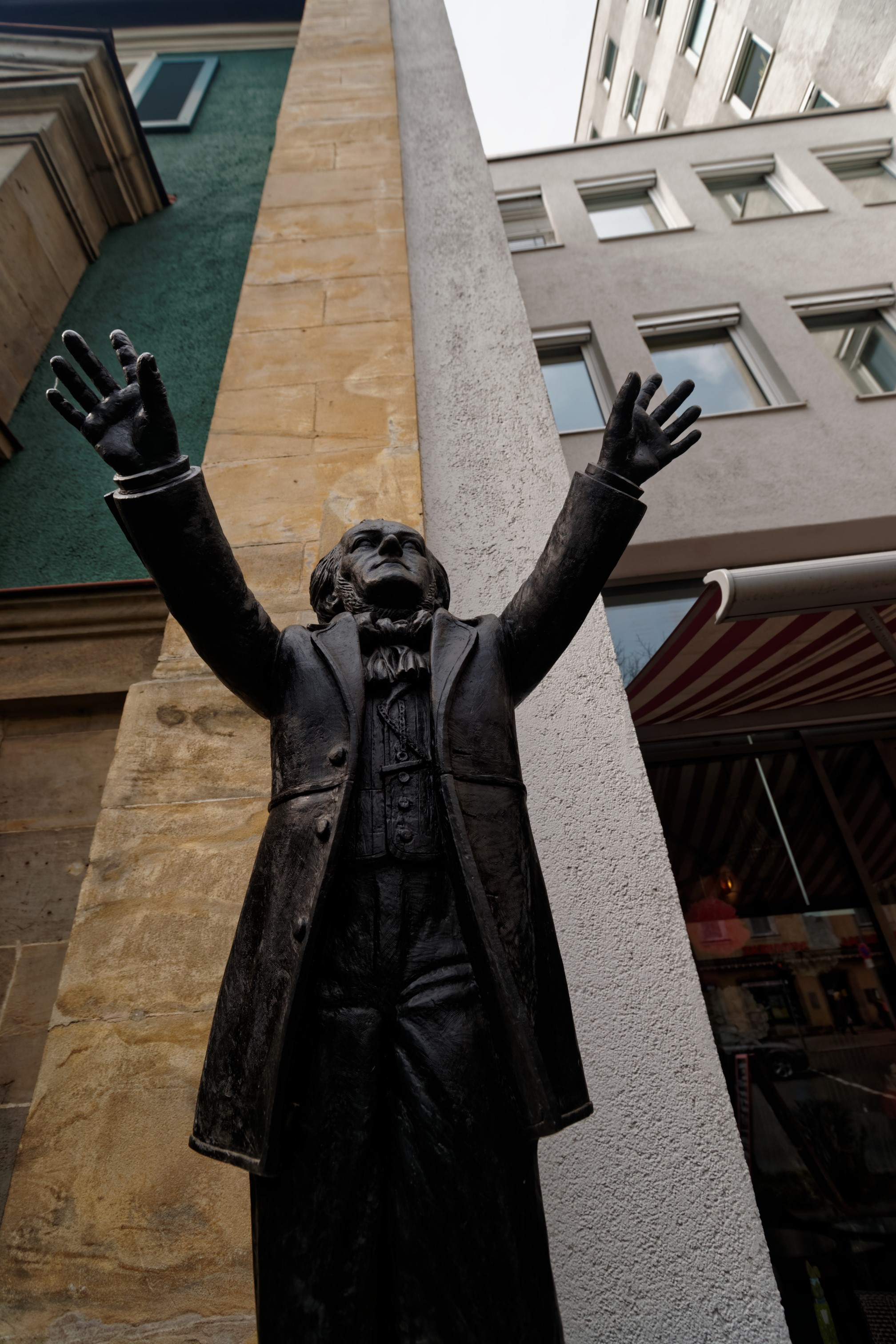 Bayreuth - Wagner Statue close to the Railway Station